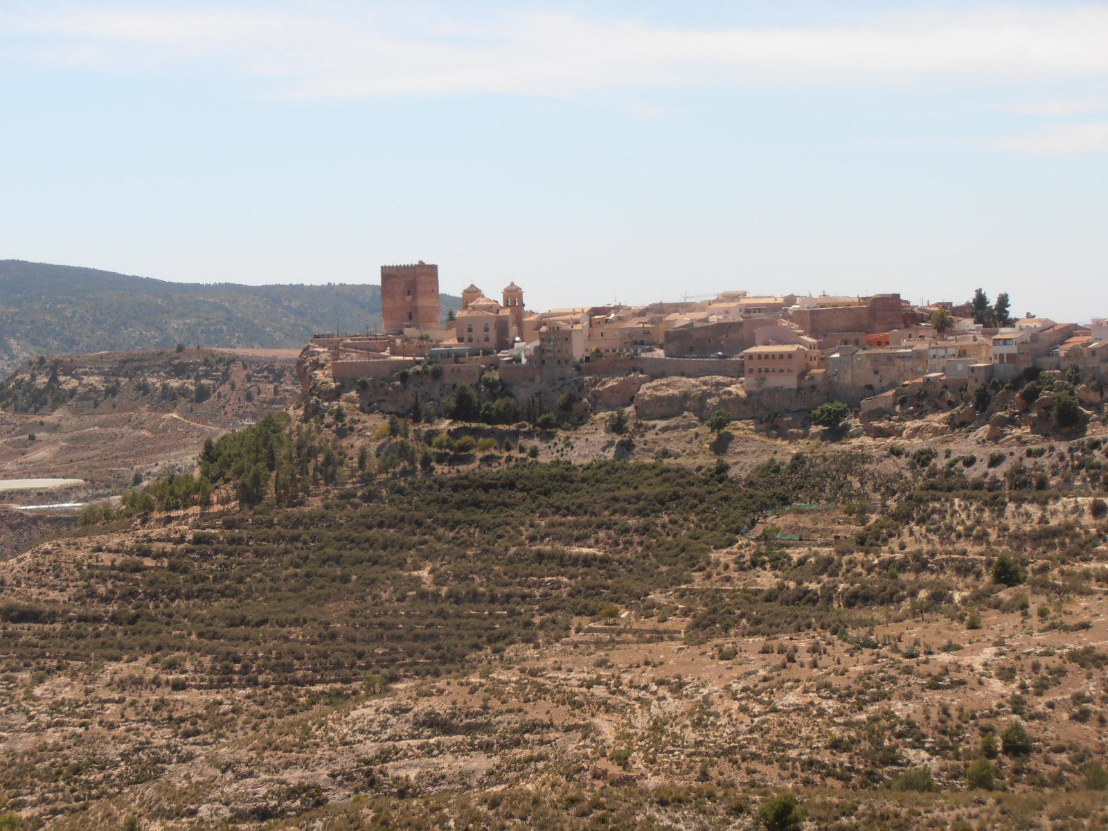 View of Aledo (from East)